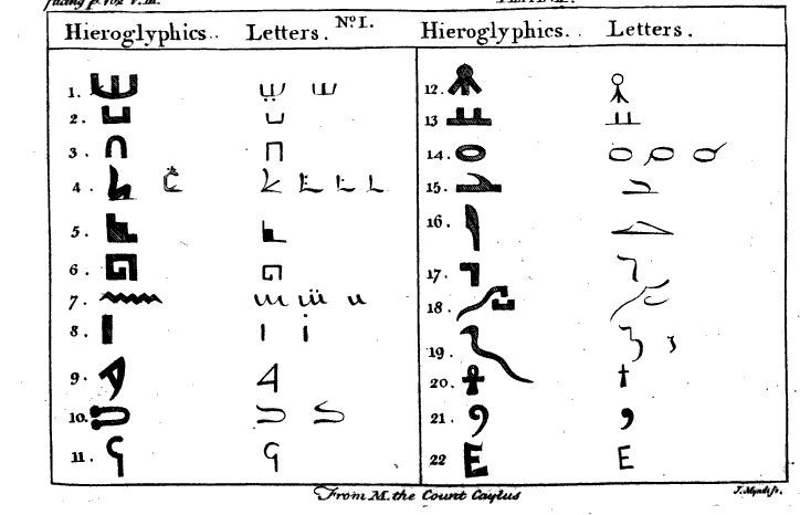 Hieroglyphs according to the ideas of the Comte de Caylus, illustration from the 1765 edition of The Divine Legation of Moses, by William Warburton.